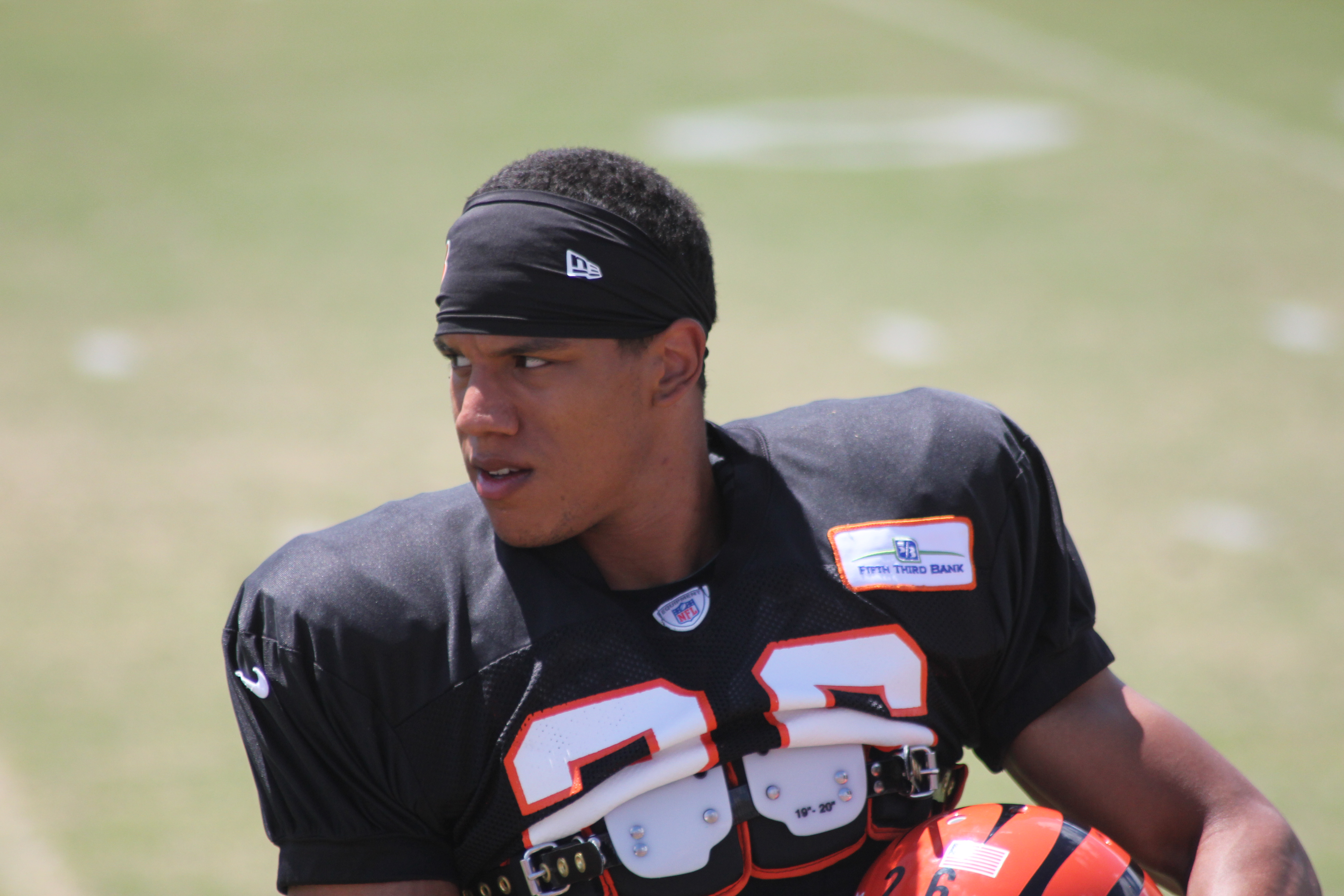 Cincinnati Bengals safety, Taylor Mays, at training camp on July 31, 2013.